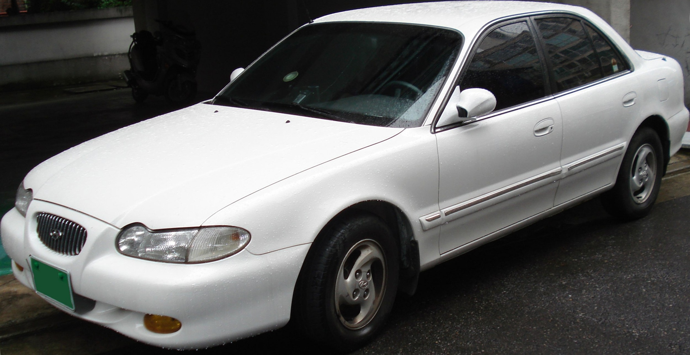 Hyundai Sonata Ⅲ